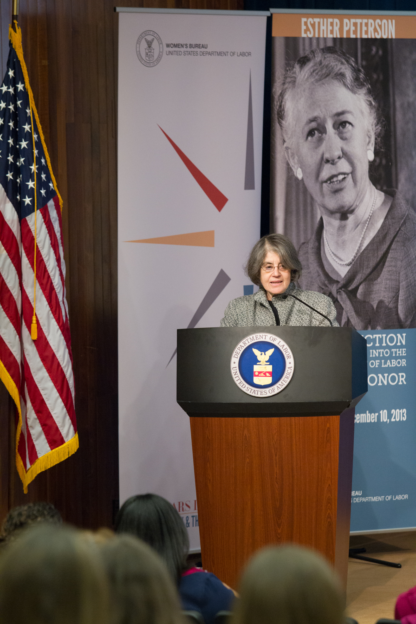 Cynthia Harrison of George Washington University presents a video about the creation of the President's Commission on the Status of Women. 09 December 2013 - Washington, DC - The Department of Labor's Women's Bureau (WB) 50th Anniversary of the Report on the President's Commission on the Status of Women conference. Latifa Lyles, Acting Director of Women's Bureau opened the event and the panel discussion was led by Laura Fortman, Principal Deputy Administrator for the Wage and Hour Division of the U.S. Department of Labor. The panelists were Ellen Galinsky, President and Co-Founder of Families and Work Institute; Gaylynn Burroughs, Director of Policy and Research for the Feminist Majority Foundation and Vicki Shabo, Director of Work and family Programs at the national Partnership for Women and Families. ***Official Department of Labor Photograph*** This official Department of Labor photograph is being made available only for publication by news organizations and/or for personal use printing by the subject(s) of the photograph. The photograph may not be manipulated in any way and may not be used in commercial or political materials, advertisements, emails, products, and/or promotions that in any way suggest approval or endorsement of the Secretary, or the Department of Labor. Photo Credit: Department of Labor